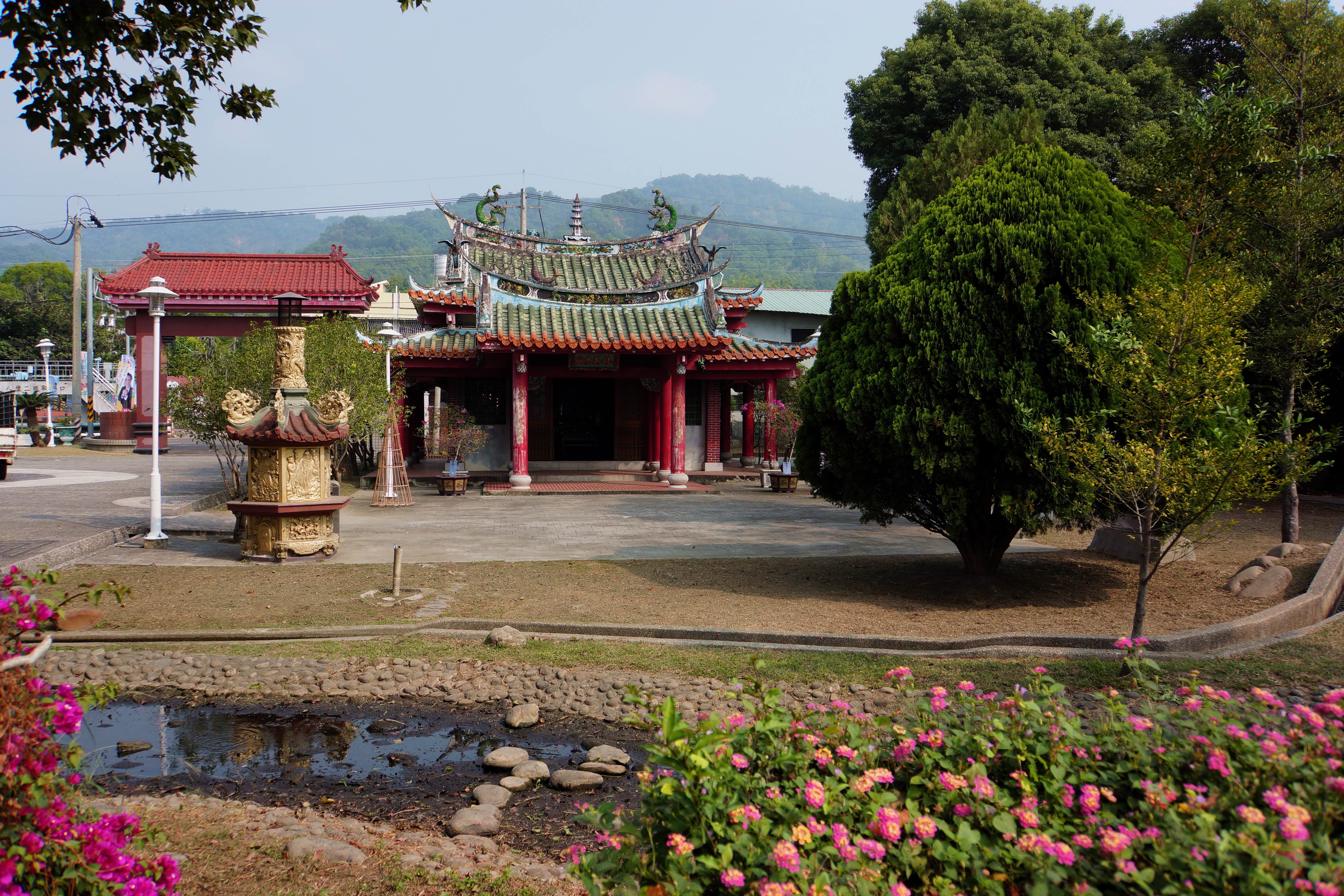 林先生廟 Linxiansheng Temple